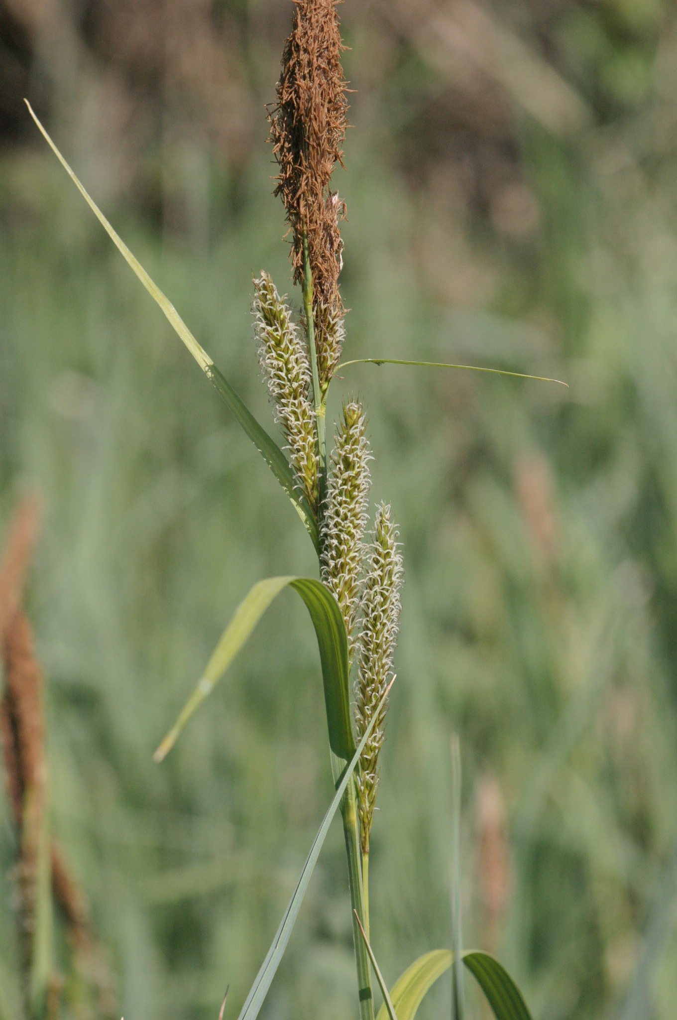 Carex riparia